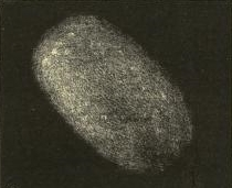 Drawing of comet 5D/Brorsen, May 14, 1868, by Karl Bruhns